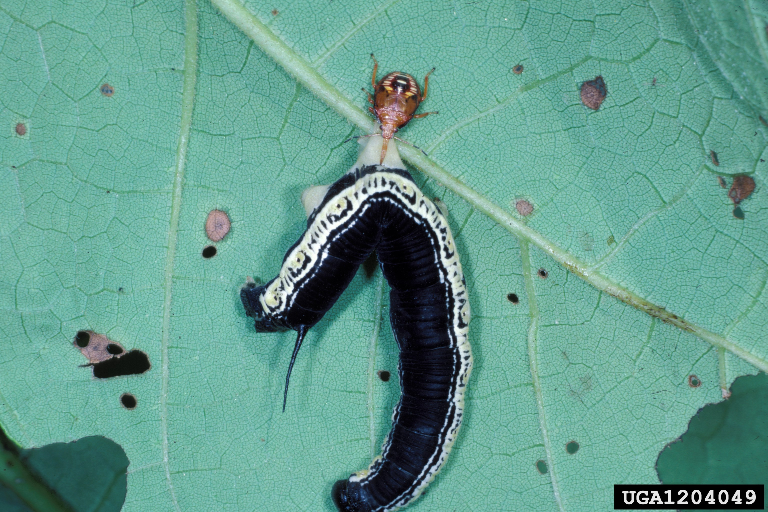 Podisus maculiventris (adult) attacking caterpillar of Catalpa Sphinx (Ceratomia catalpae) ; family Pentatomidae